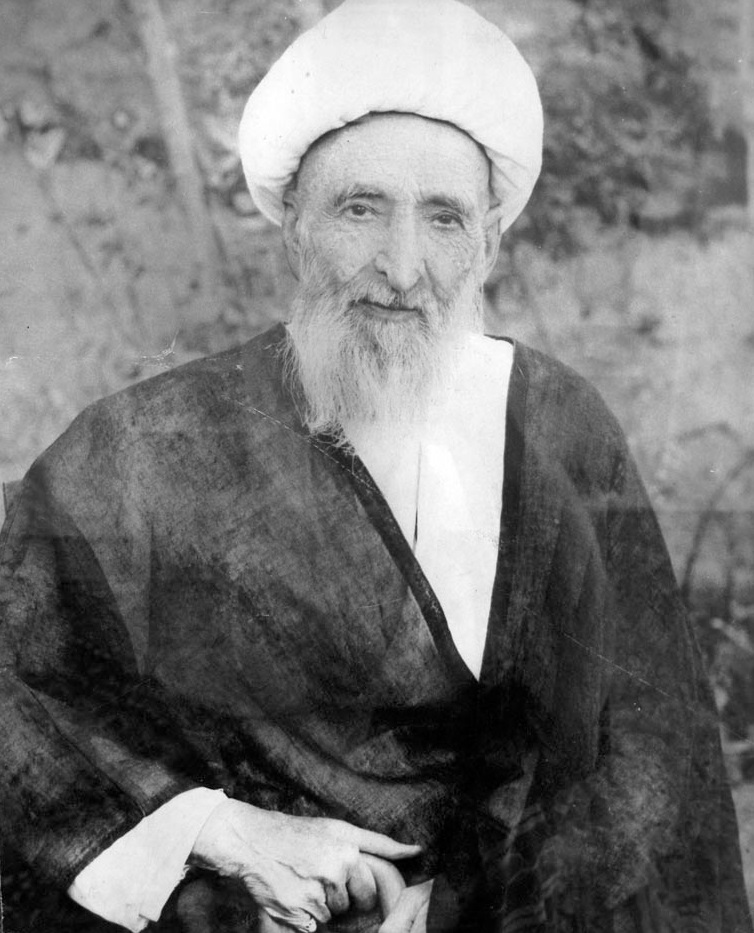 Mohammad Javad Safi Golpaygani (5567)